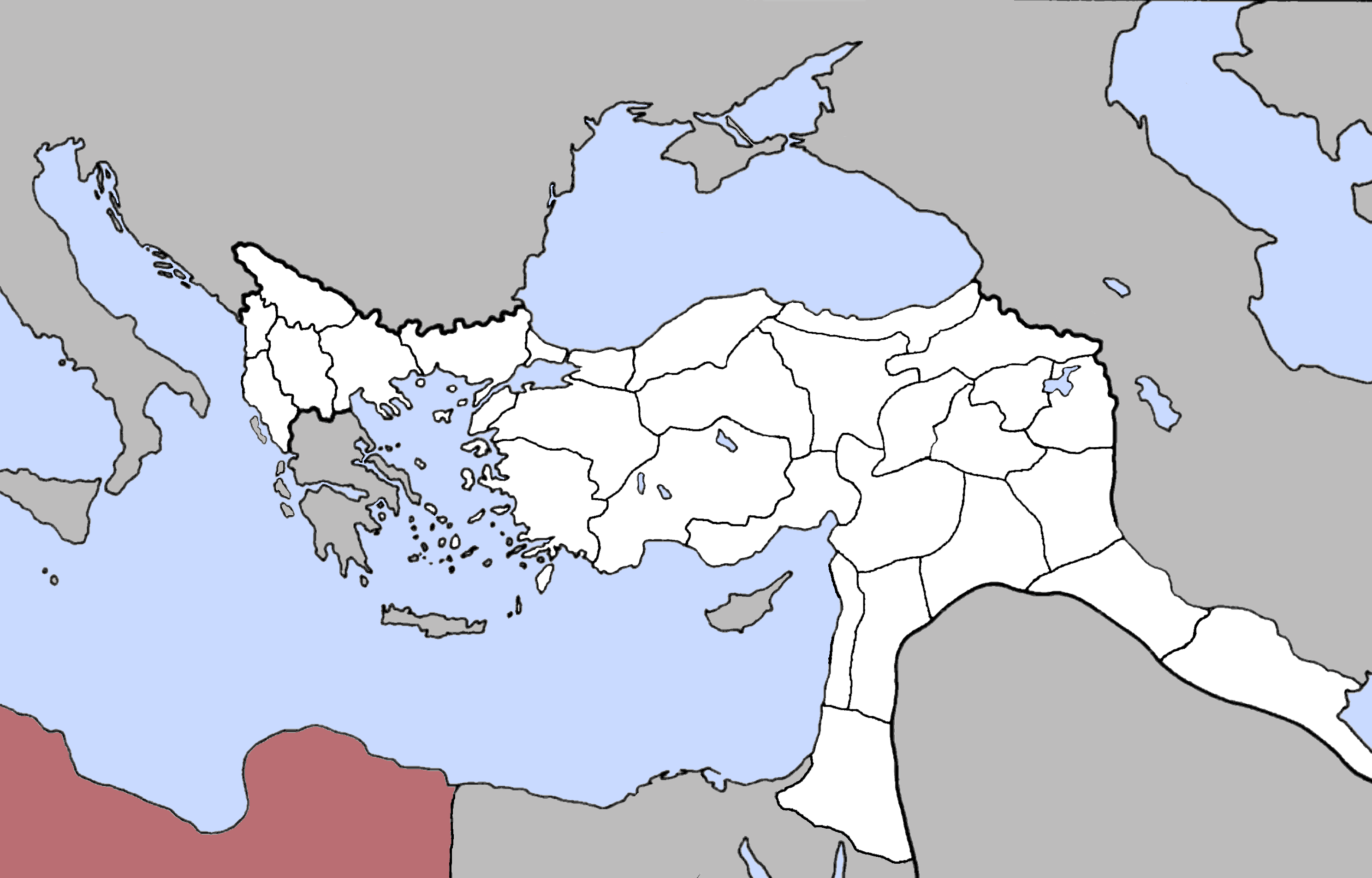 XY Vilayet, Ottoman Empire (1900). Source: An Economic and Social History of the Ottoman Empire, Volume 2 at Google Books By Suraiya Faroqhi, Bruce McGowan, Donald Quataert, Sevket Pamuk